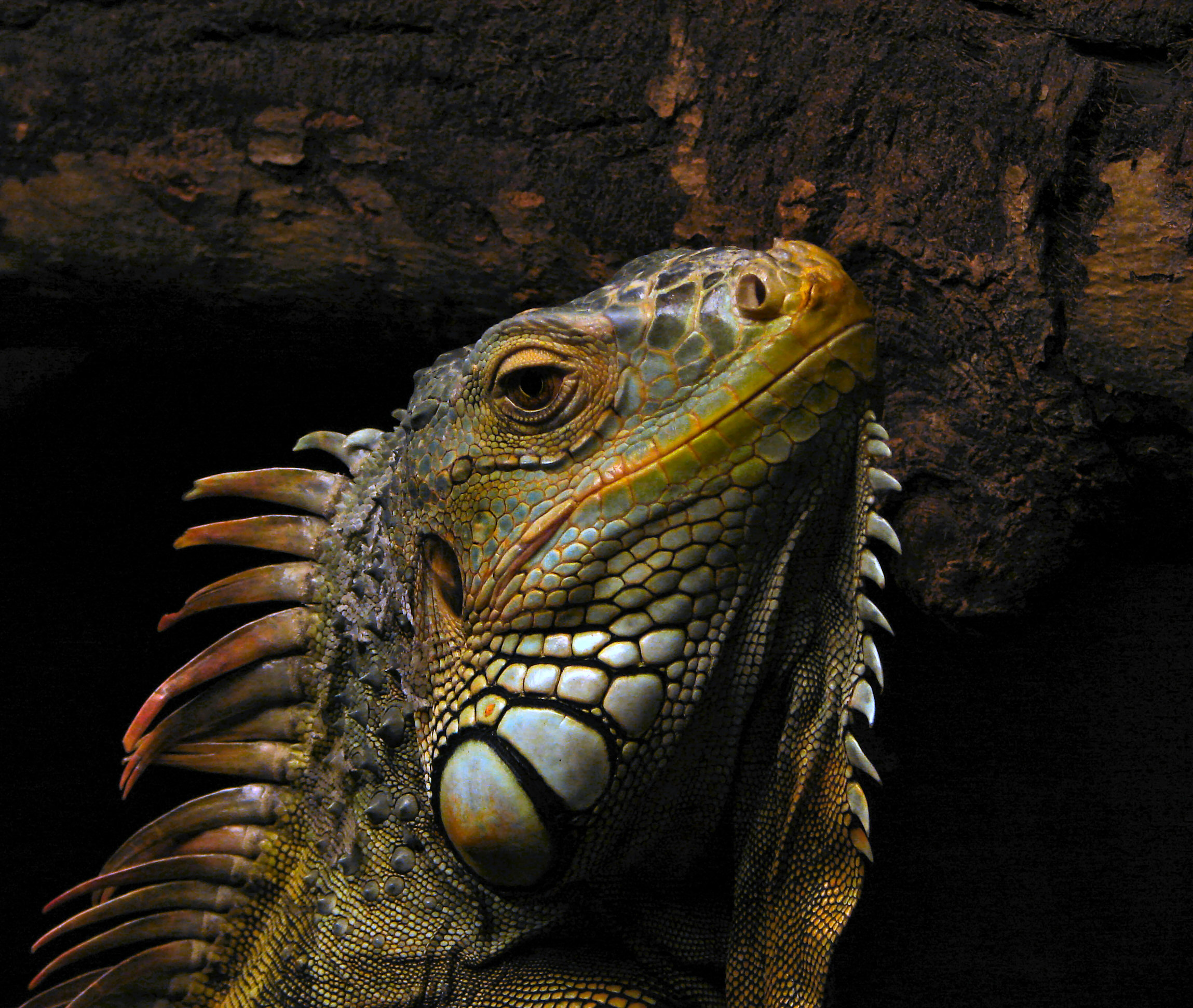 Iguana posing in the Oslo Reptile Park (Green Iguana – Iguana iguana). It's an adult male, and his name is Charlie. The small wound on his nose is self-inflicted. During the mating season (spring-time), he turns a bit aggressive and will sometimes throw himself at his keepers and straight into walls. Those wounds heal quickly by themselves.